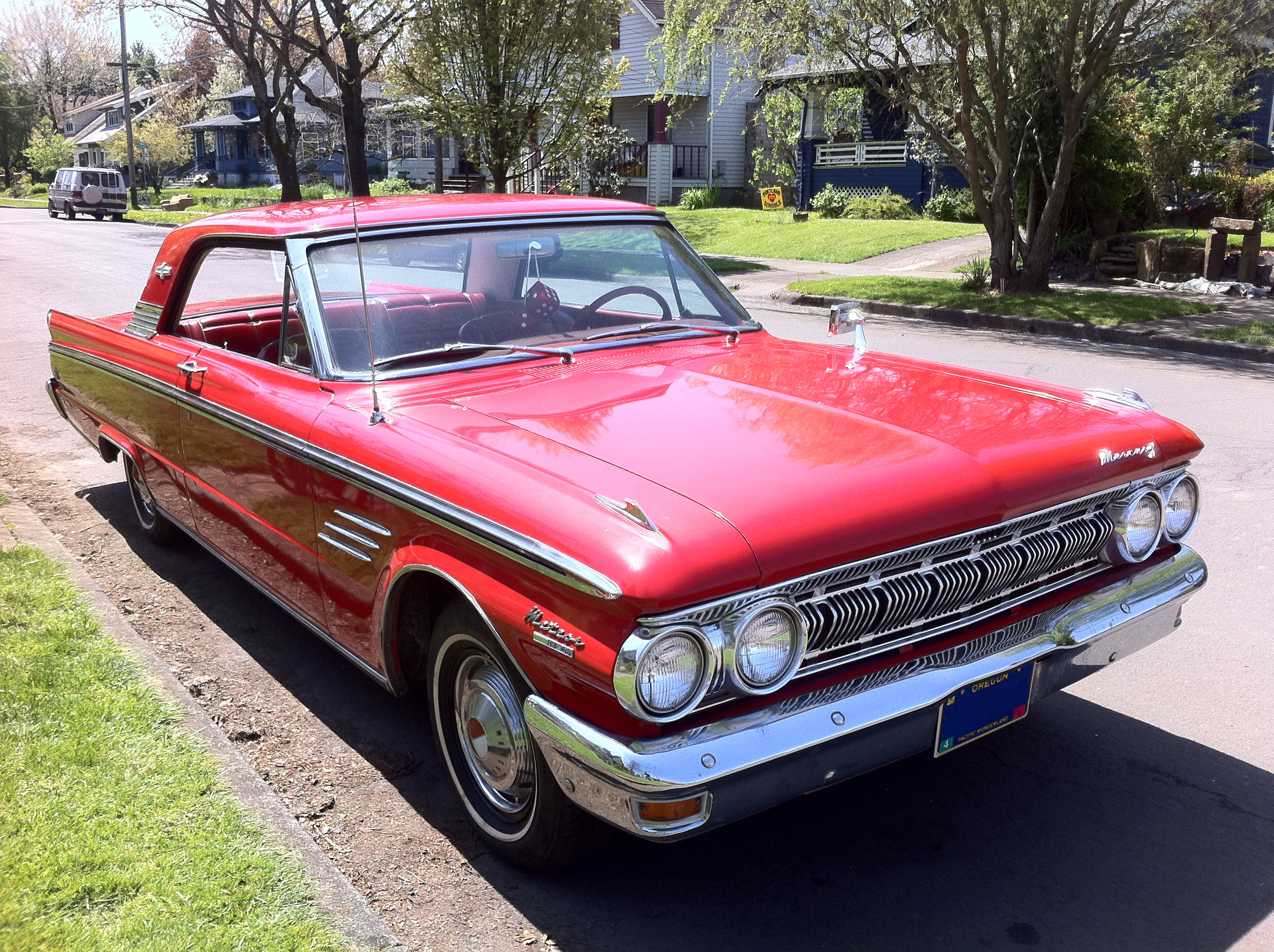 A pristine 100% original VERY RARE 1963 Meteor S33. Was a 2nd owner barn find out of Washington with only 99k miles on the clock.